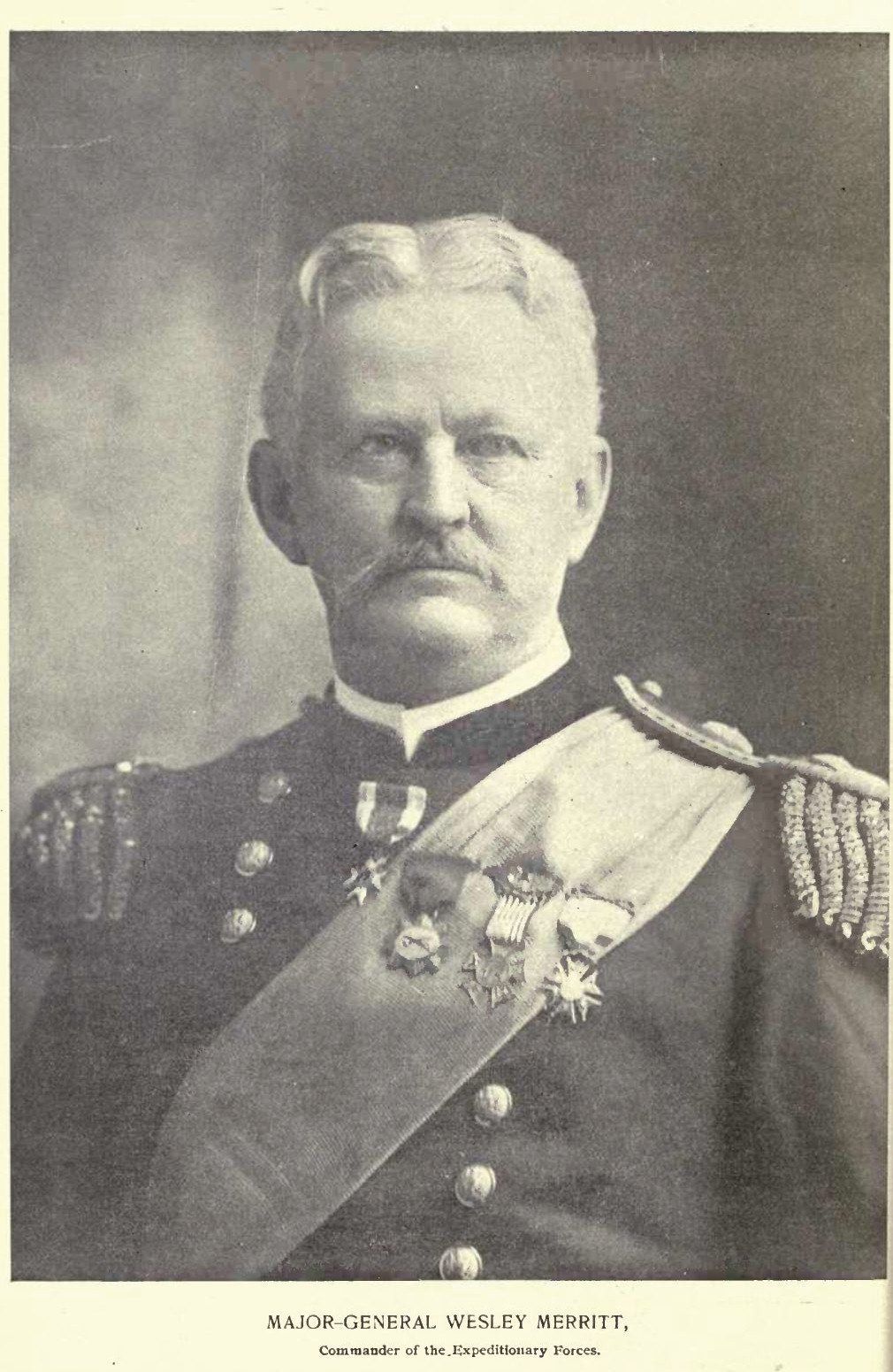 Major General Wesley Merritt from Illustrated Roster of California Volunteer Soliders in the War with Spain (1898)